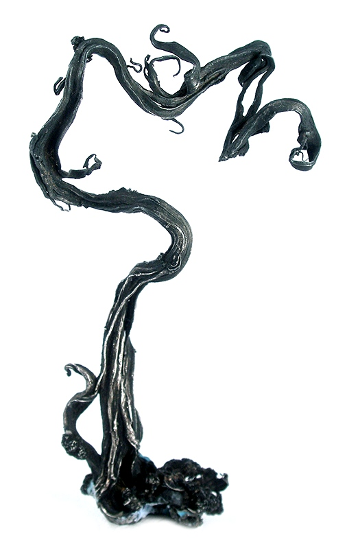 Acanthite, Silver Locality: Kongsberg, Buskerud, Norway (Locality at ) Size: cabinet, 11.0 x 5.8 x 1.8 cm (4.5 inches tall) Silver with Acanthite Superb, incredibly aesthetic, example from this most treasured of old European classic Silver locales. This piece has a beautiful dark patina caused by a micro layer of acanthite coating, and an exquisite complexity to the rope as it twists and turns like a living thing. The piece is VERY sturdy despite its elegant look, and this is a solid piece that is not flexible or "bendy" like some German silvers of this size. Long one of the premier silvers in the Meieran collection, and one of the half dozen best he had acquired through buying and trading over the last 50 years of trying to assemble one of the best suites of native elements. I feel that the price here is a downright bargain, all things considered; as well as compared to numerous pieces I have seen for sale in the same price range in only the last year that simply do not blow me away as this one does (heck, I have seen a dozen so-called six-figure silvers at Springfield Show alone, and they couldn't touch this with a ten foot pole for impact !). Because of the size and quality of this specimen, I was happy to have the privilege of trading this from Gene only recently. Gene told me the following as well: The one you got was originally from Wayne Thompson to Evan Jones then to me, if I remember. Exchanged for ALL my Mexican and Arizona minerals. I got it at least 12 years ago, it was in at least one of my winning Desautels-cases.